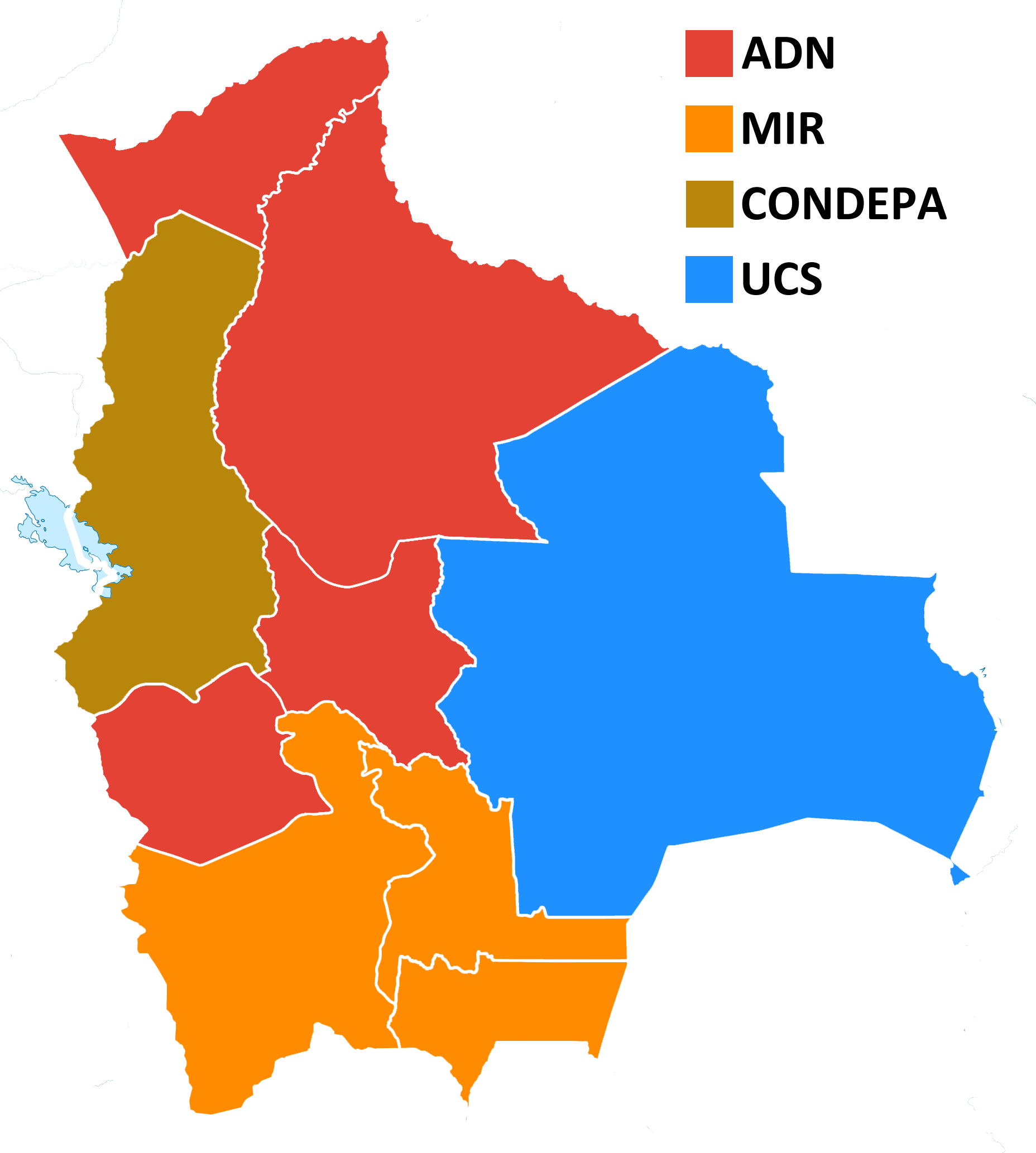 1997 Bolivian elections map